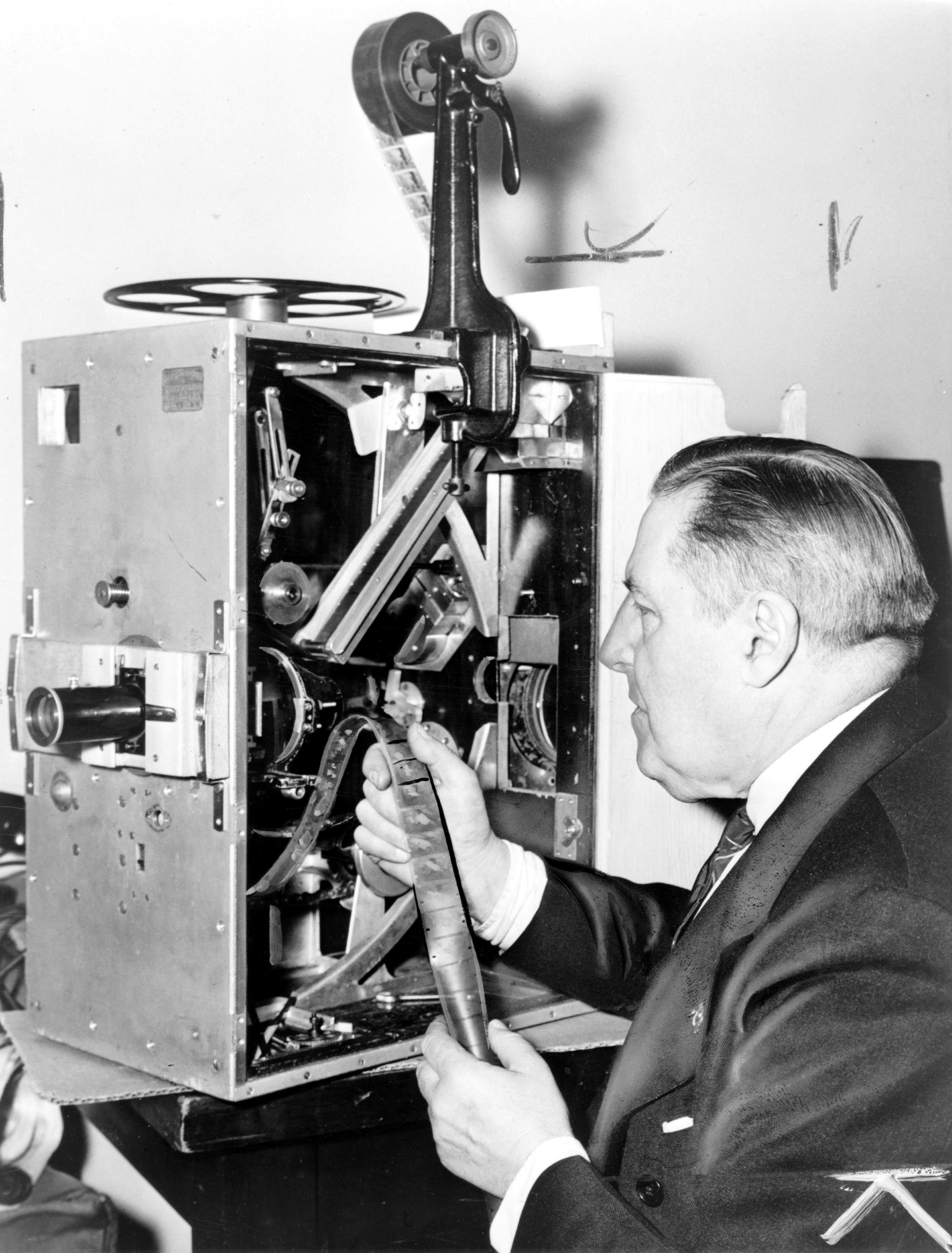 Billy Bitzer, American cinematographer, seated at movie projector.